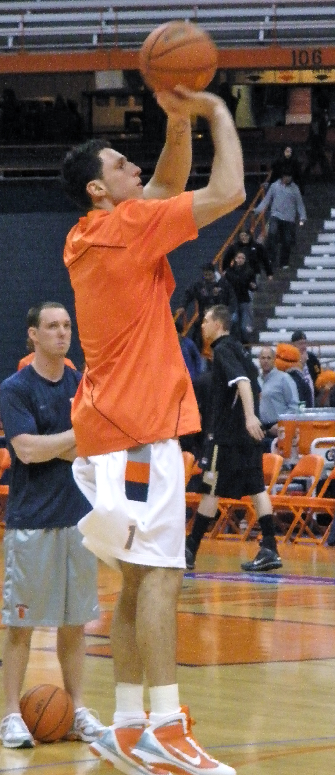 Andy Rautins during pre-game warmups before a game on 2009-12-22